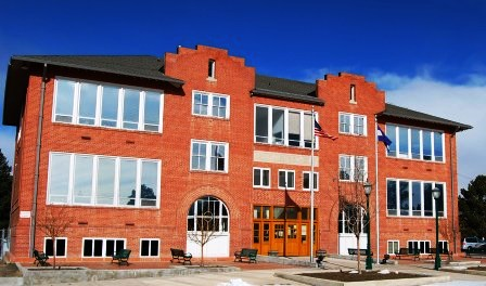 The Lewis-Palmer 38 school district office.